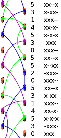 Ladder diagram, siteswap: 53145305520. Made by me MattKingston 04:47, 1 May 2005 (UTC)